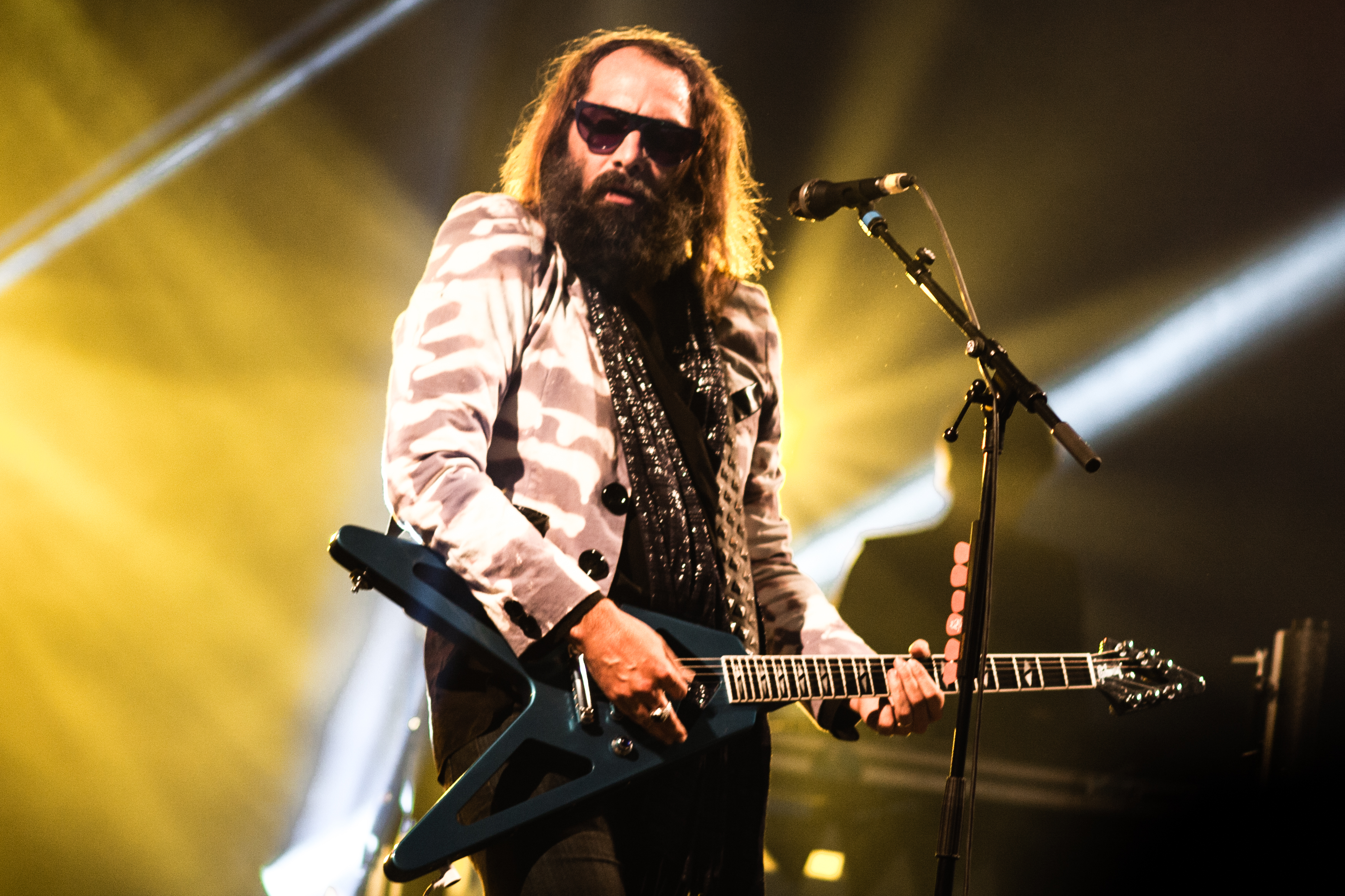 Follow me on facebook Twitter : @didyPhotography All the photographies I've made are now under CC0 (Creative Commons Zero) CC0 - learn more To the extent possible under law,Eddy BERTHIERhas waived all copyright and related or neighboring rights to Sébastien Tellier @ Dour 2012.This work is published from:France.